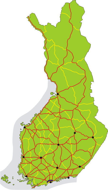 Map of the main road 50 (Kehä III) in Finland, shown in dark blue. The other 1st class main roads (numbers 1–29) are red, 2nd class main roads (numbers 40–98) yellow. Black dots show the 12 biggest urban areas.